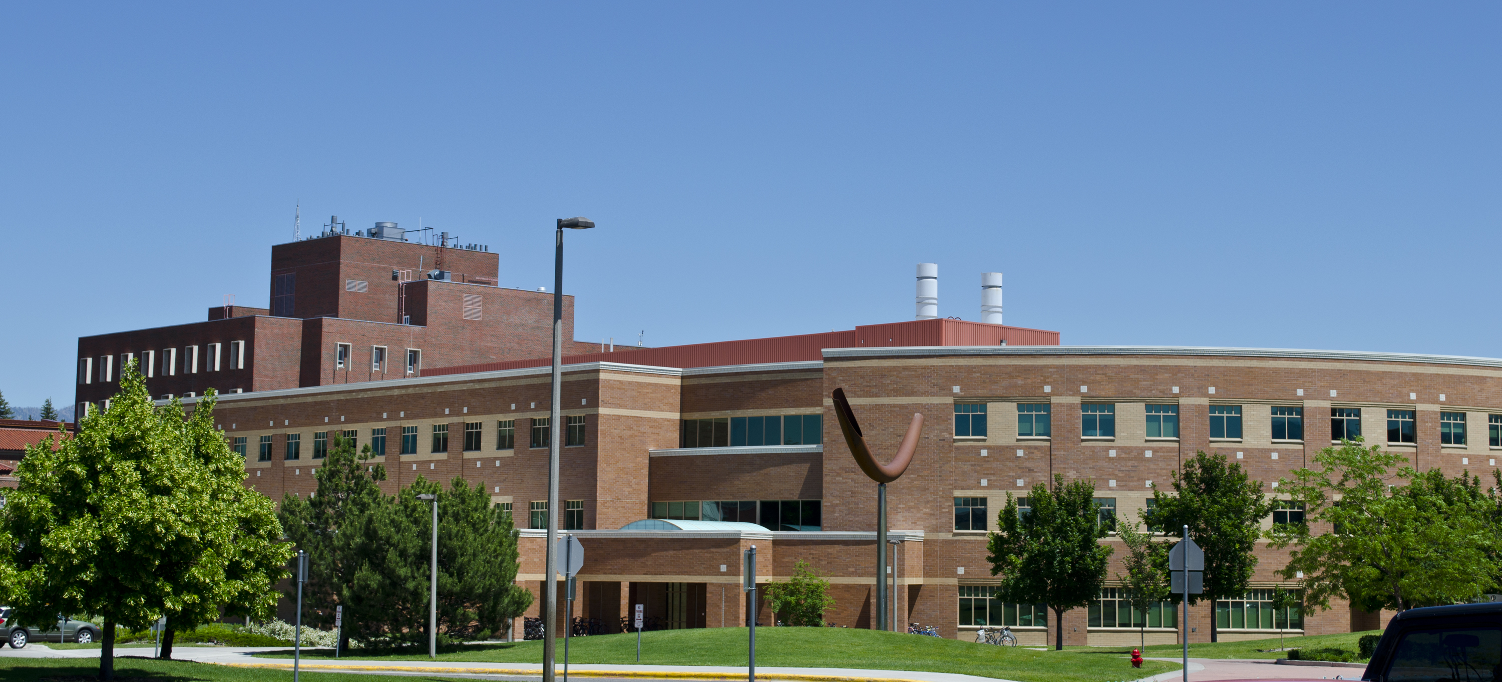 Looking northeast from West Grant Drive at the Engineering and Physical Sciences (EPS) Building on the campus of Montana State University in Bozeman, Montana. Built for $26 million in 1999, the EPS Building was the most expensive building ever constructed in Montana at the time. The structure houses the physics and engineering departments, and contains a number of research labs -- including the Burns Technology Center, Center for Biofilm Engineering, and Space Science and Engineering Laboratory. The lobby of the structure, known as Studio 1080, contains interactive touch-screen monitors that display student and faculty research work. The arc-like structure supported on a metal arm is the sculpture "Wind Arc" by artist Gary Bates. Known as "the Noodle" by students, it was erected in 2002. It not only moves with the wind but makes a moaning sound as well.